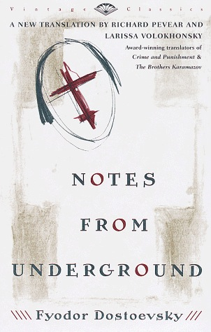 Cover of Notes From Underground (Fyodor Dostoïevski)